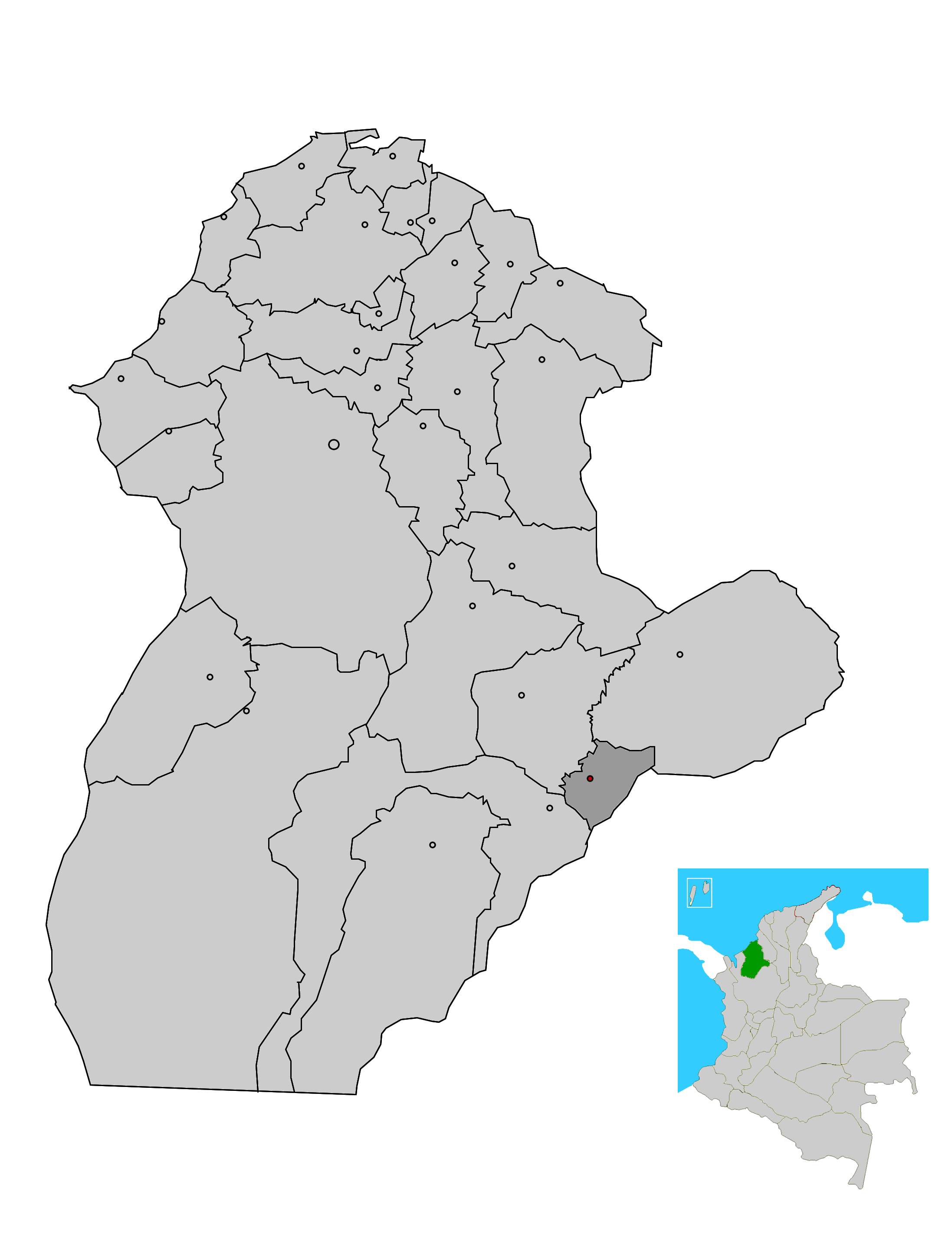 municipality of La Apartada in the Cordoba Department, Colombia